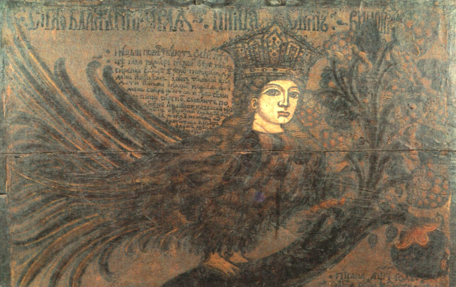 Sirin bird on a grape tree